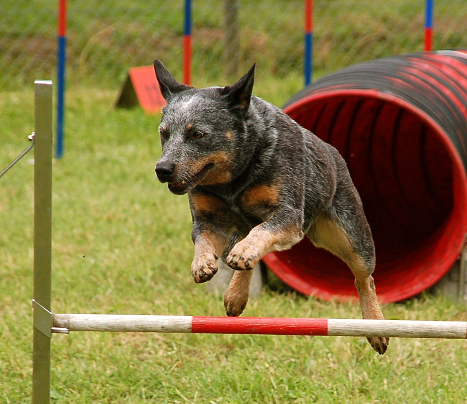 Australian Cattle Dog "Silverbarn's Naava" jumping